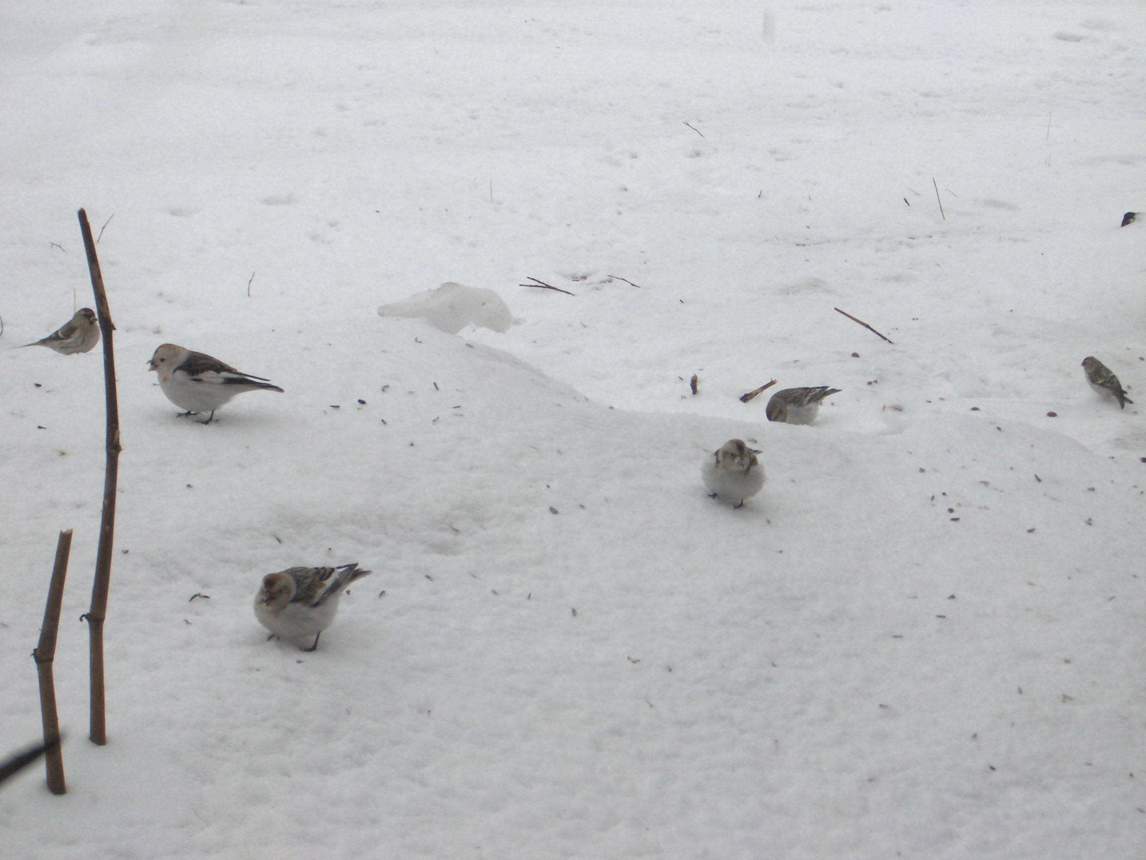 Snow buntigs eating while waiting for better weather to move north